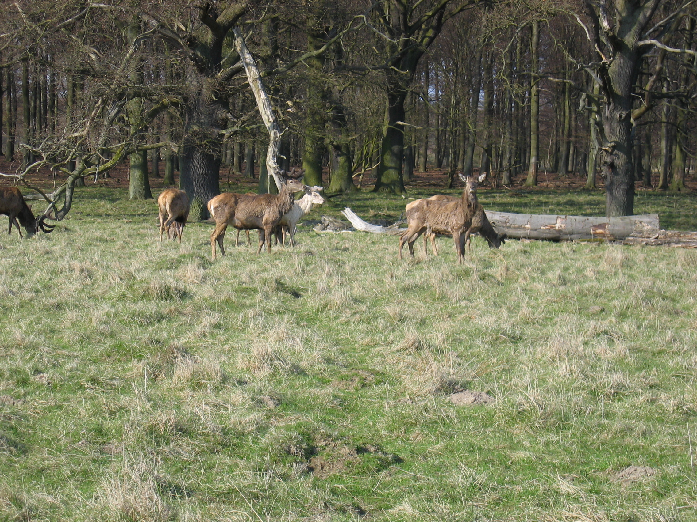 Red deer on Eremitage plain, Jægersborg Deer Park, Denmark.